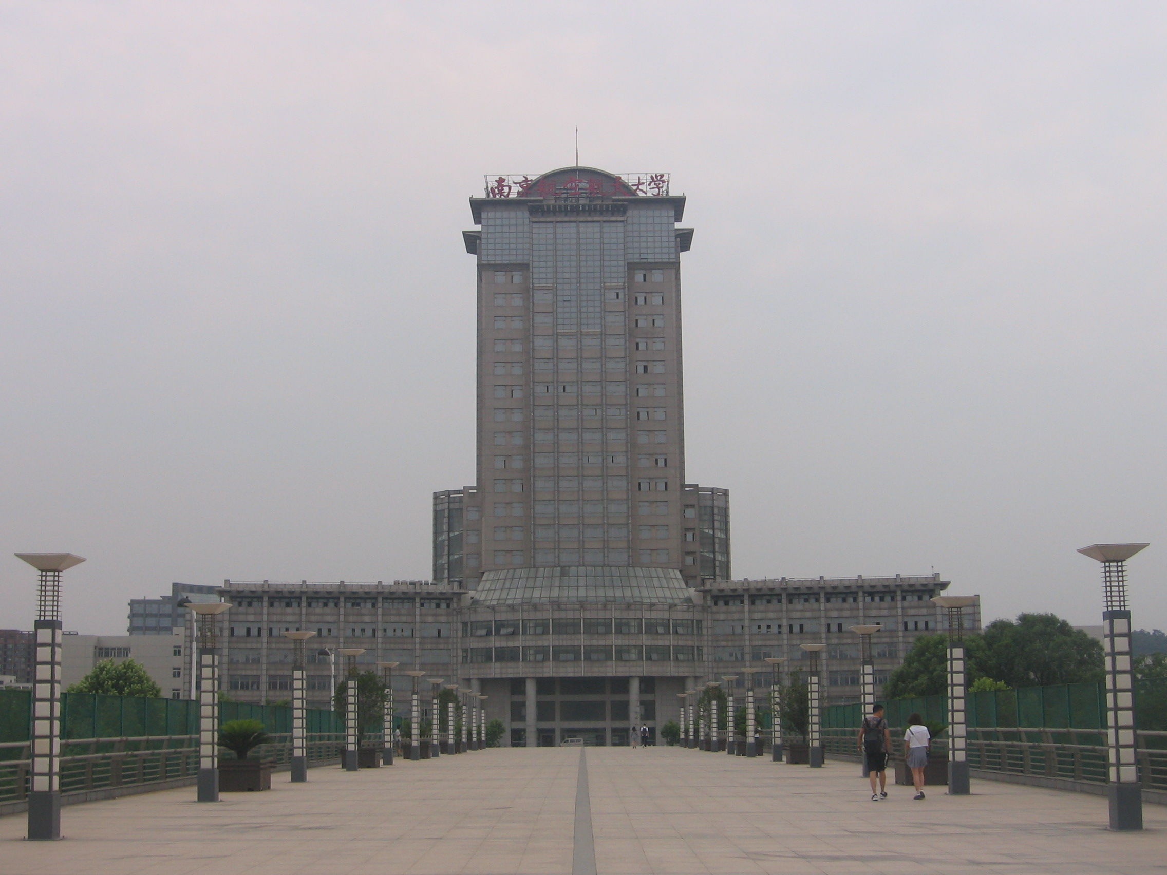 Nanjing University of Aeronautics and Astronautics